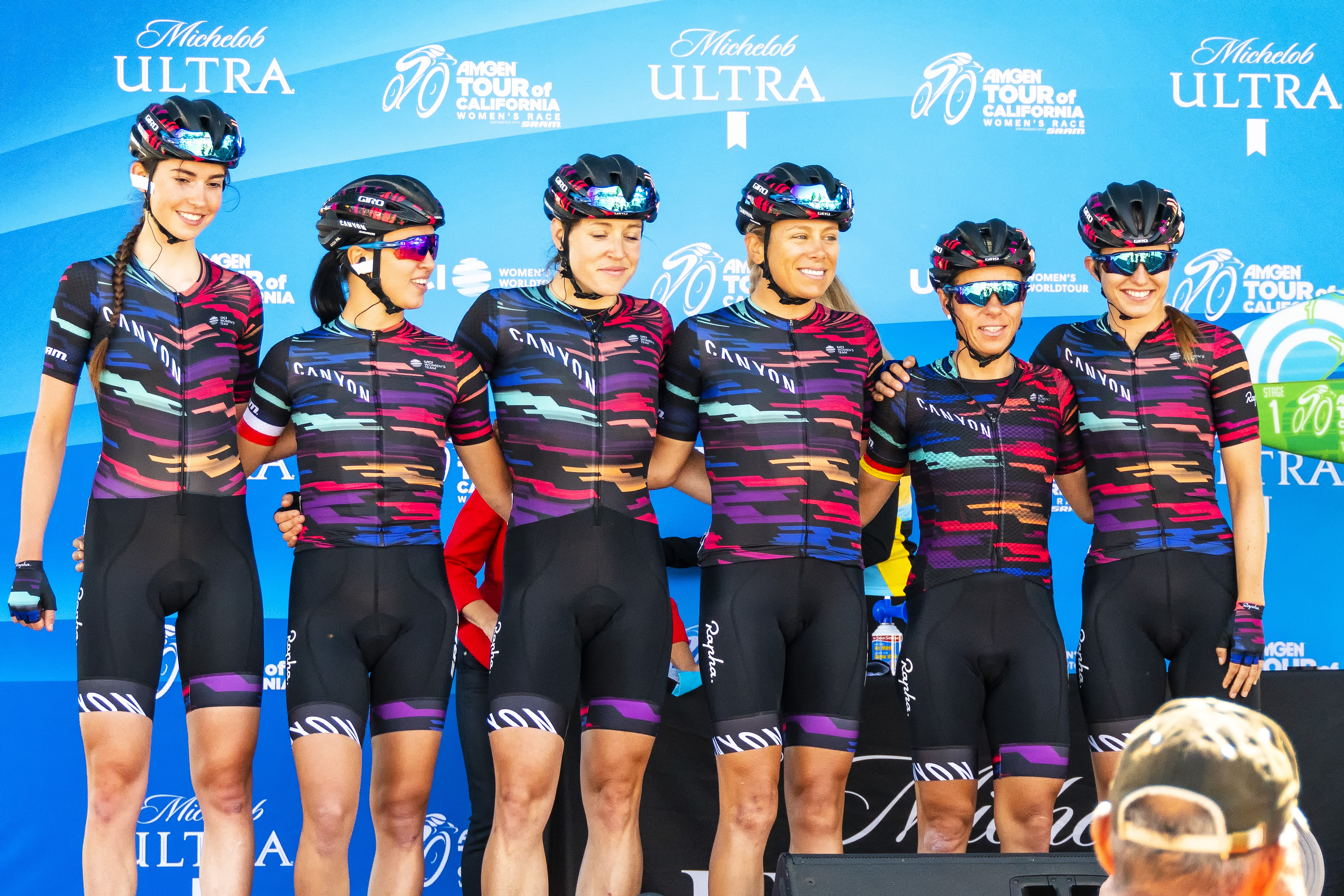 Amgen Women's Tour of California 2018